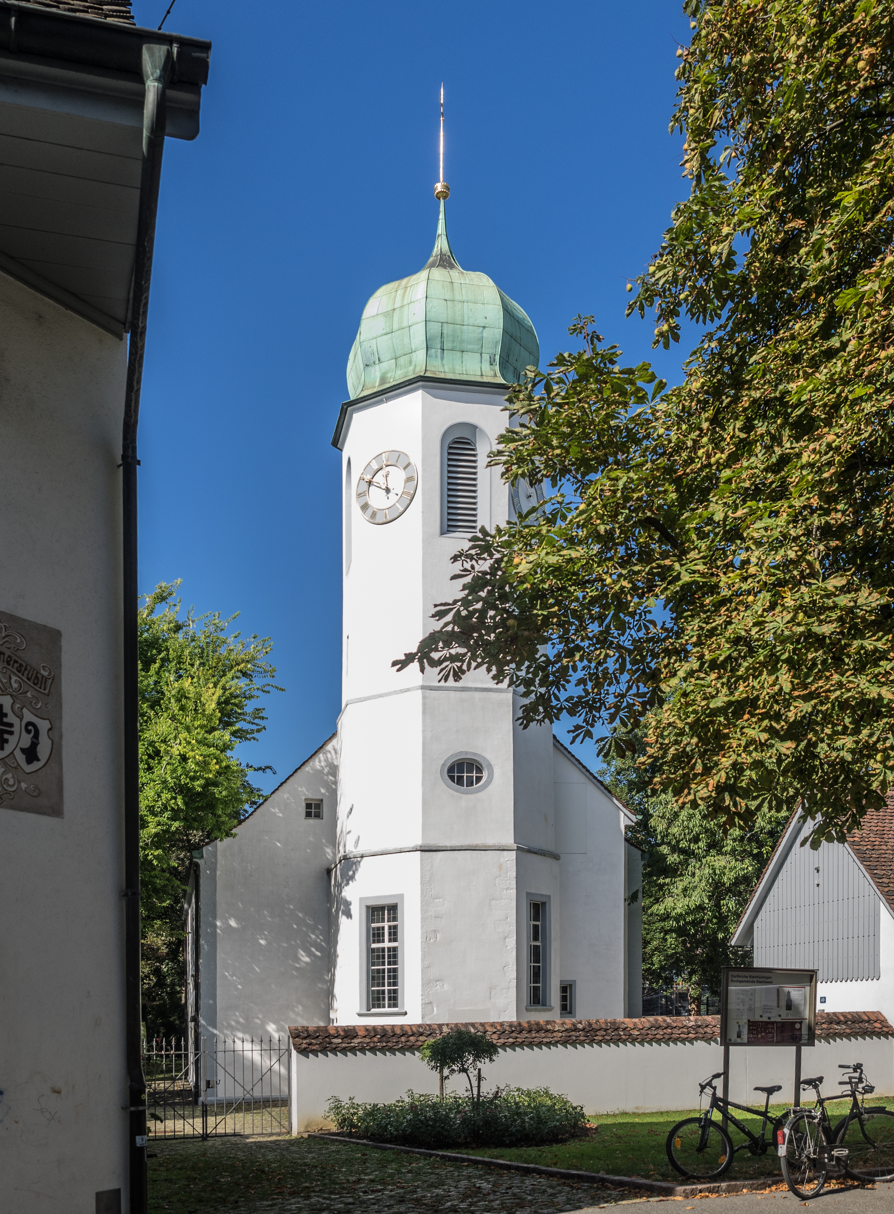 The church of Kleinhüningen.